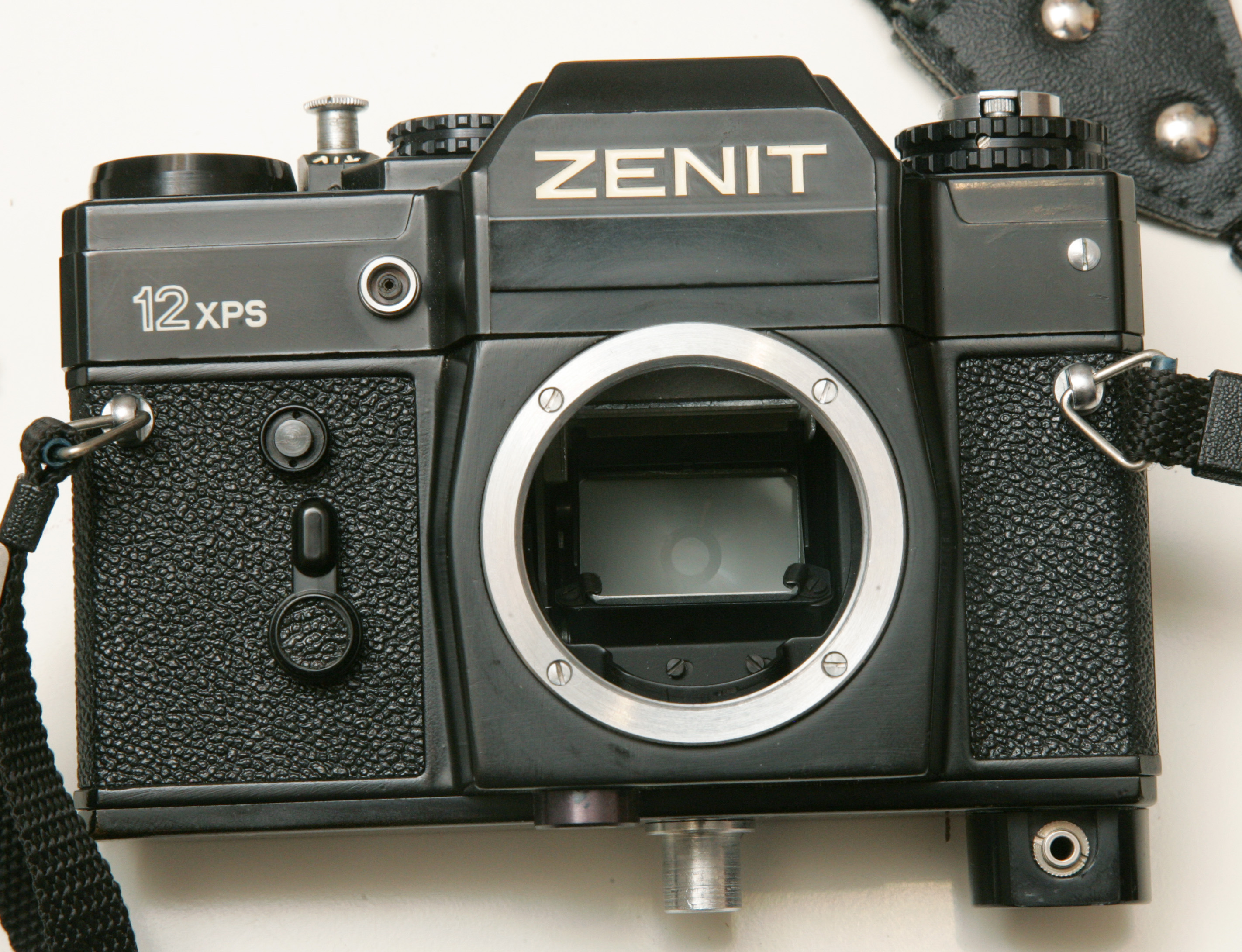 Soviet SLR 'Zenit-12xps' for 'Photosniper-12-3' gun